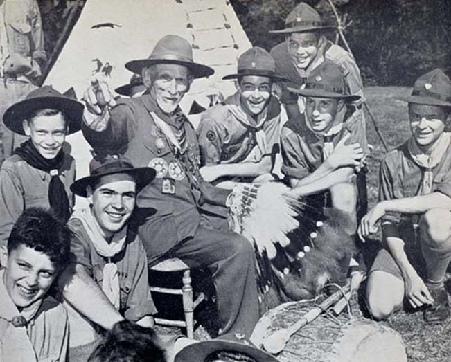 Early 20th century leader of the Scouting movement Dan Beard